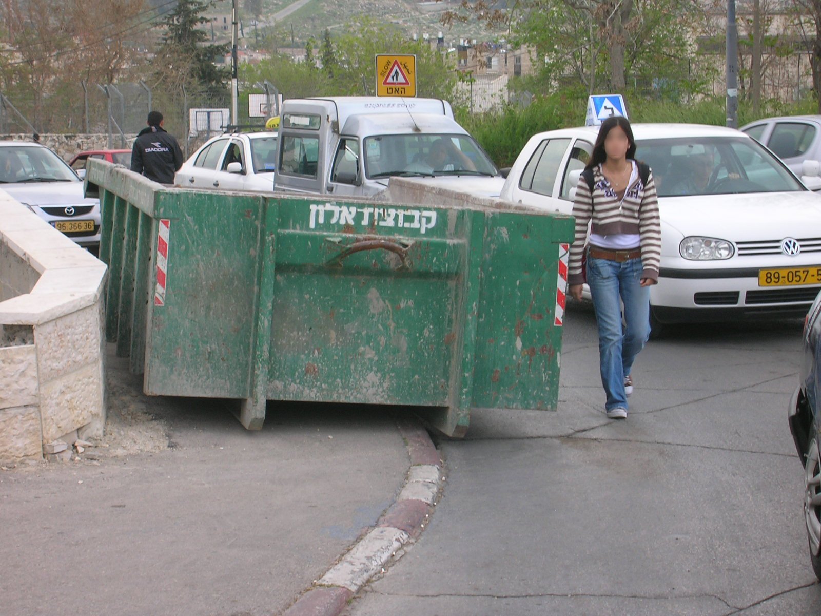 sidewalk Blocked